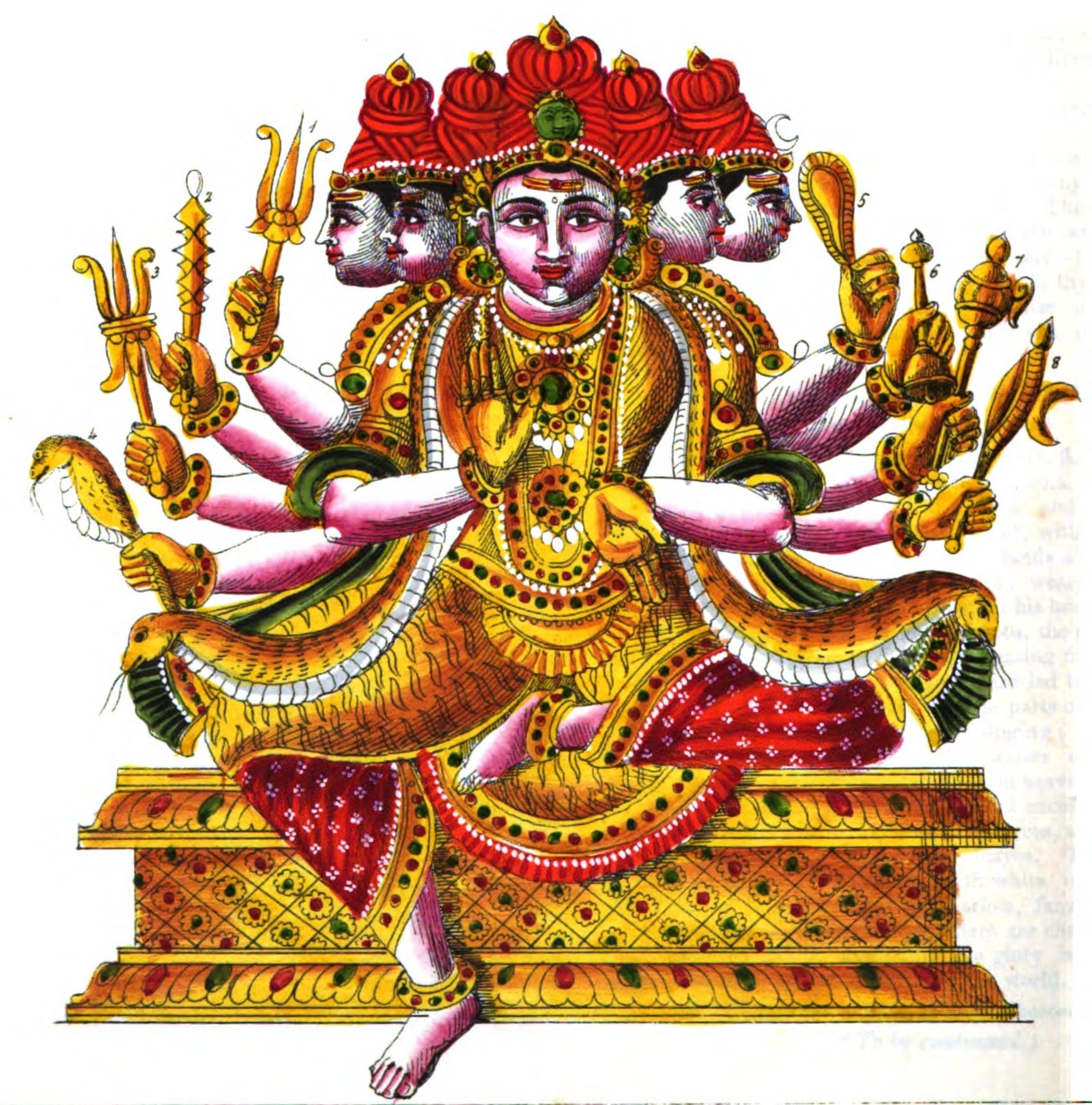 Sadashiva